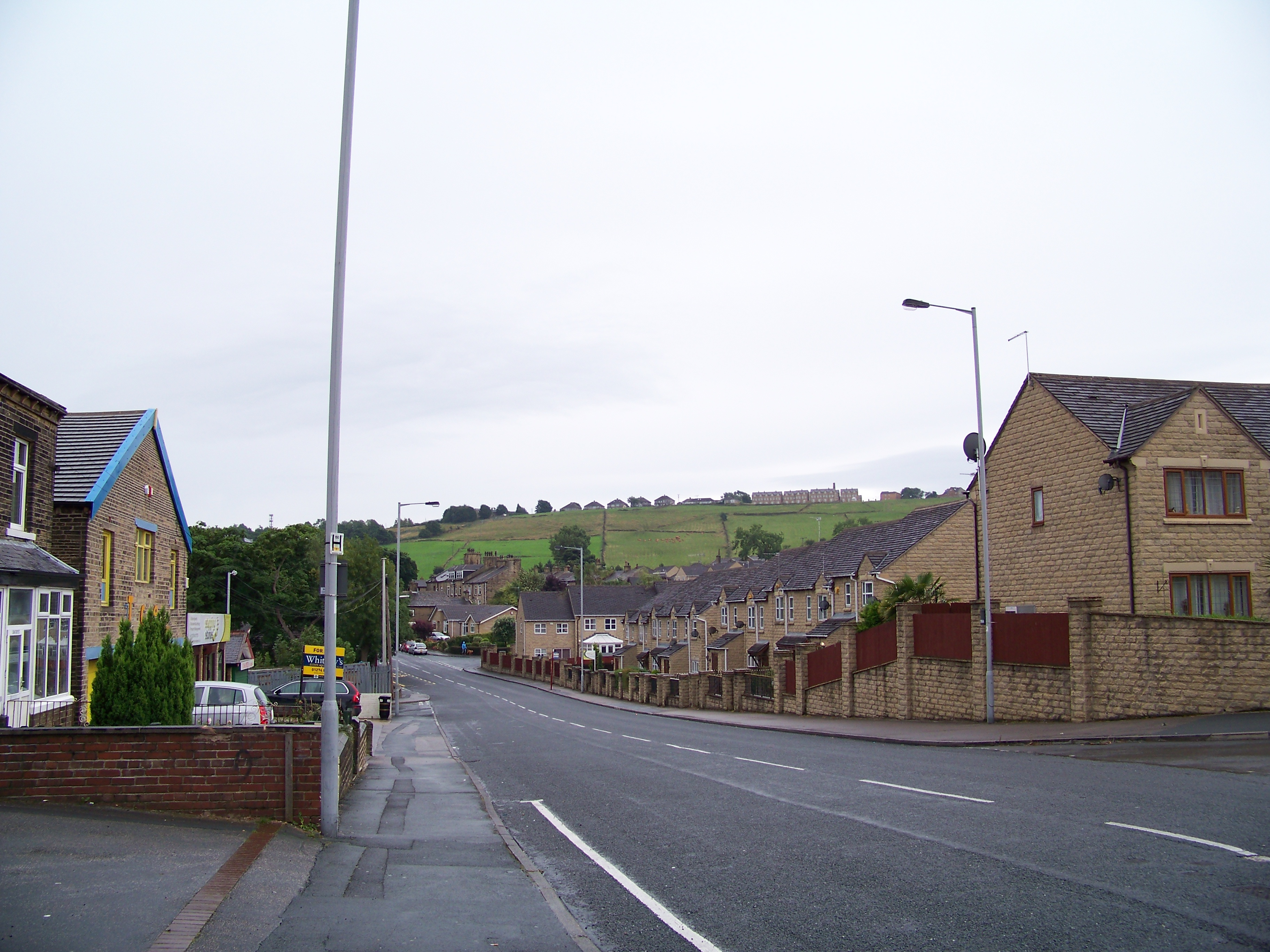 Station Road Clayton, Bradford, West Yorkshire, England. Showing the steep valley side leading up to Clayton Heights.